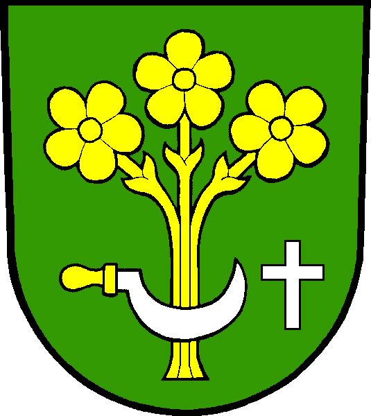 Municipal coat of arms of Lučice village, Havlíčkův Brod District, Czech Republic.